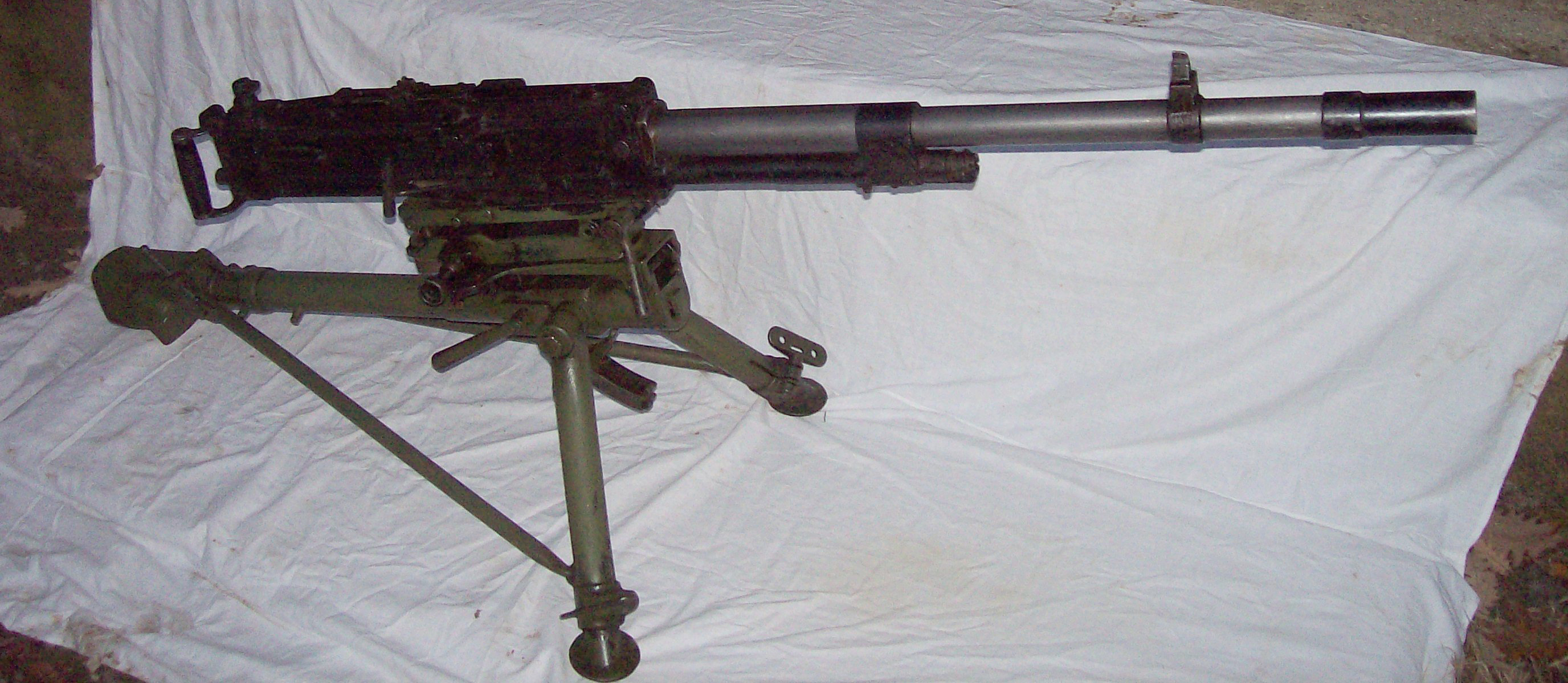 Breda Modello 1937 Heavy Maschine Gun